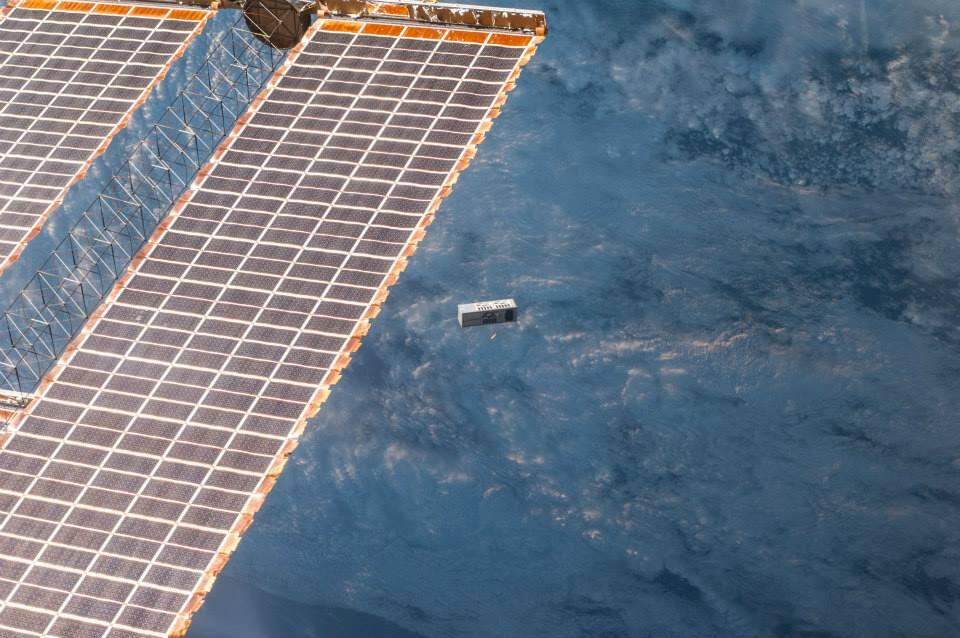 deployment pf TechEdSat3p satellite